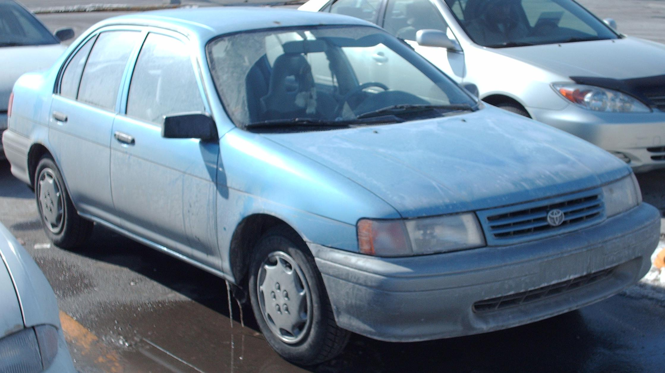 1991 Toyota Tercel photographed in Montreal, Quebec, Canada.